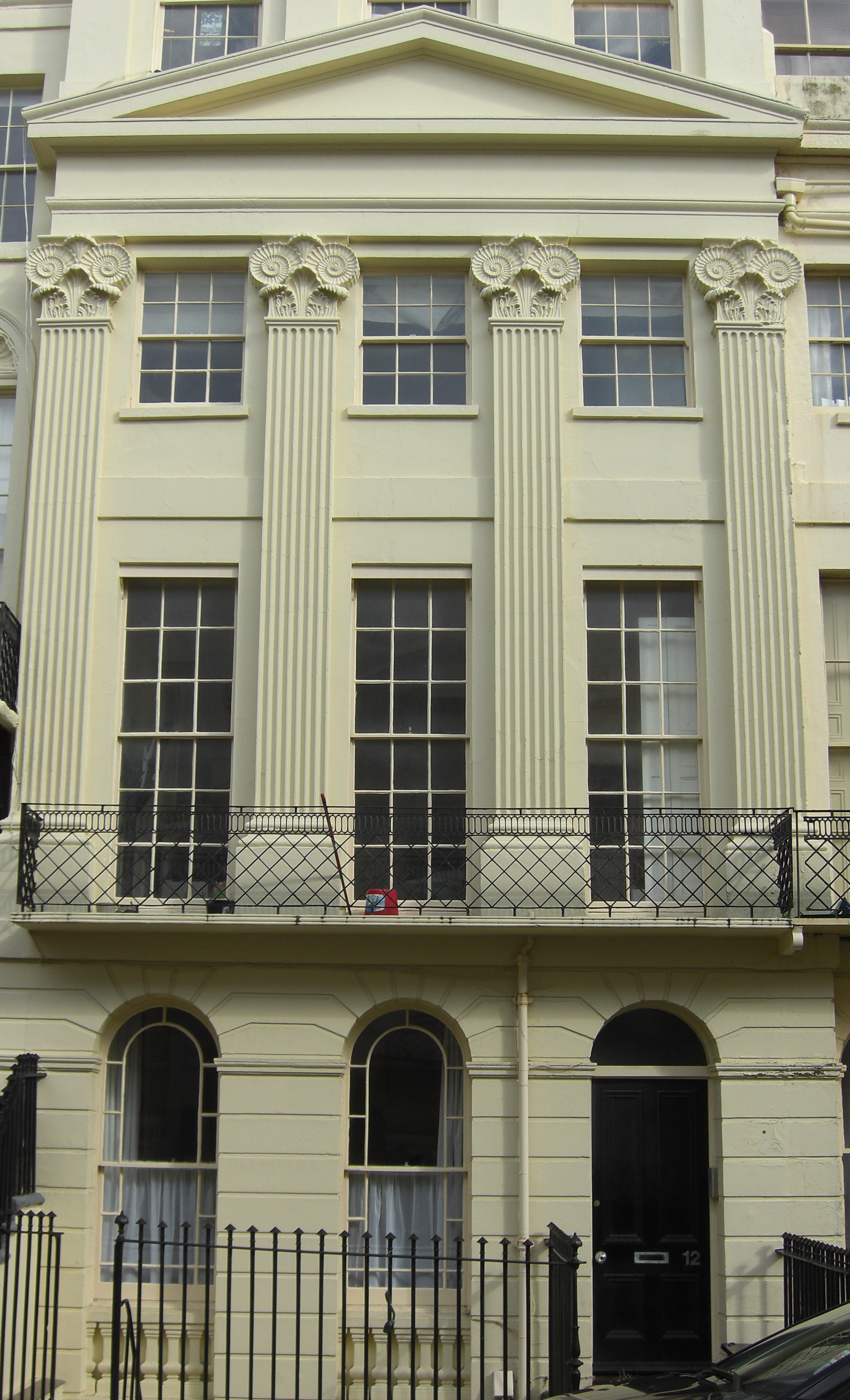 An example of four Ammonite capitals on a house designed by Amon Henry Wilds in Oriental Place, Brighton, East Sussex, England. This street in Brighton includes many Ammonite capitals on both sides of the road.